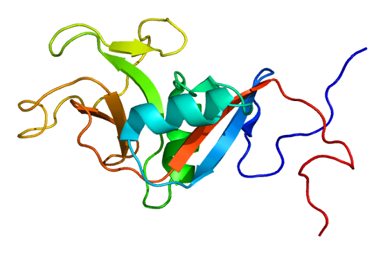 Structure of the FCER2 protein. Based on PyMOL rendering of PDB 1t8c.